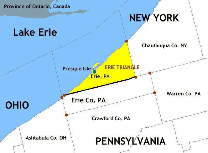 Map of Erie Triangle in Erie County, Pennsylvania and surrounding area. Created via National Atlas online mapmaker, a public-domain resource of the U.S. government.